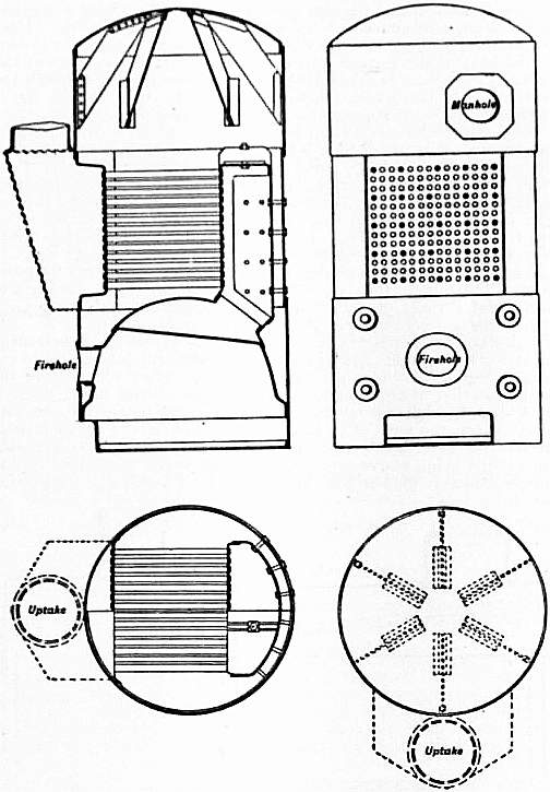 Vertical Boiler with internal combustion chamber This image comes from the 12th edition of the Encyclopædia Britannica or earlier. The copyrights for that book have expired in the United States because the book was first published in the US with the publication occurring before January 1, 1923. As such, this image is in the public domain in the United States. This image comes from the Project Gutenberg archives. This is an image that has come from a book or document for which the American copyright has expired and this image is in the public domain in the United States and possibly other countries. Note: Not all works on Project Gutenberg are in the public domain. Some public domain works may have trademark restrictions where all references to the Project Gutenberg must be removed unless the following text is prominently displayed according to The Full Project Gutenberg License in Legalese (normative): This eBook is for the use of anyone anywhere at no cost and with almost no restrictions whatsoever. You may copy it, give it away or re-use it under the terms of the Project Gutenberg License included with this eBook or online at